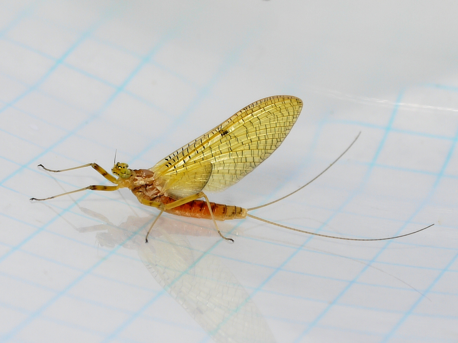 Mayfly - Sub-imago image of Stenacron interpunctatum - female, Cross Plains, WI, USA